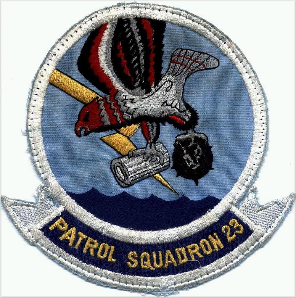 Cloth unit patch for Patrol Squadron VP-23 c. 1976